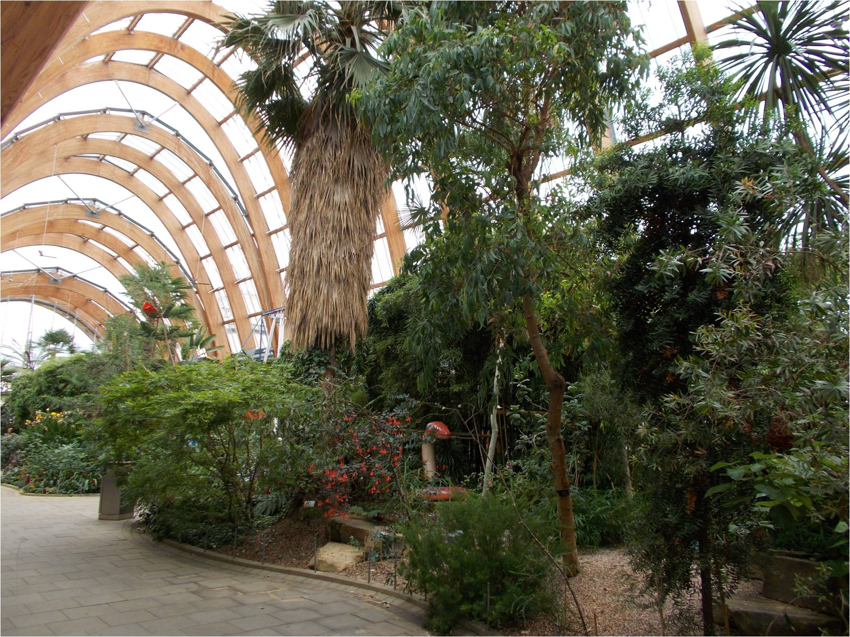 Sheffield Winter Garden - inside 2013